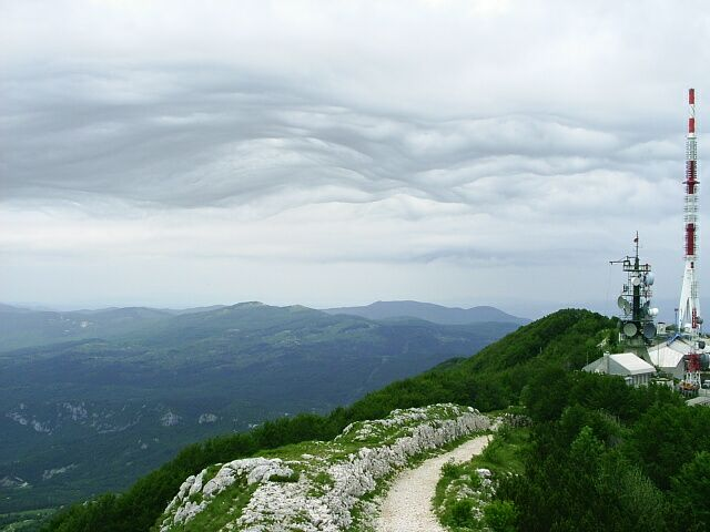 Nature and countryside of the Istria peninsula in Croatia